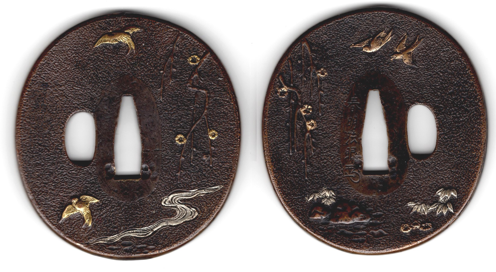 Tsuba by Kôno Haruaki